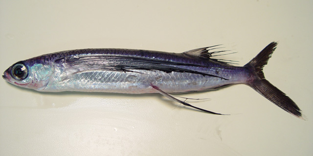 Photo of Hirundichthys rondeletii from Gulf of Mexico